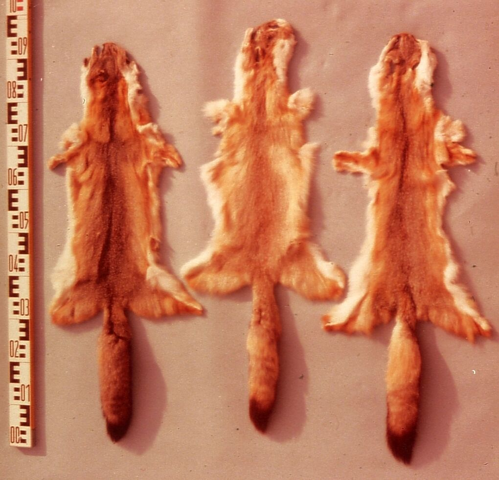 Swift fox fur skins (Vulpes velox). Fur skin collection, Bundes-Pelzfachschule, Frankfurt/Main, Germany